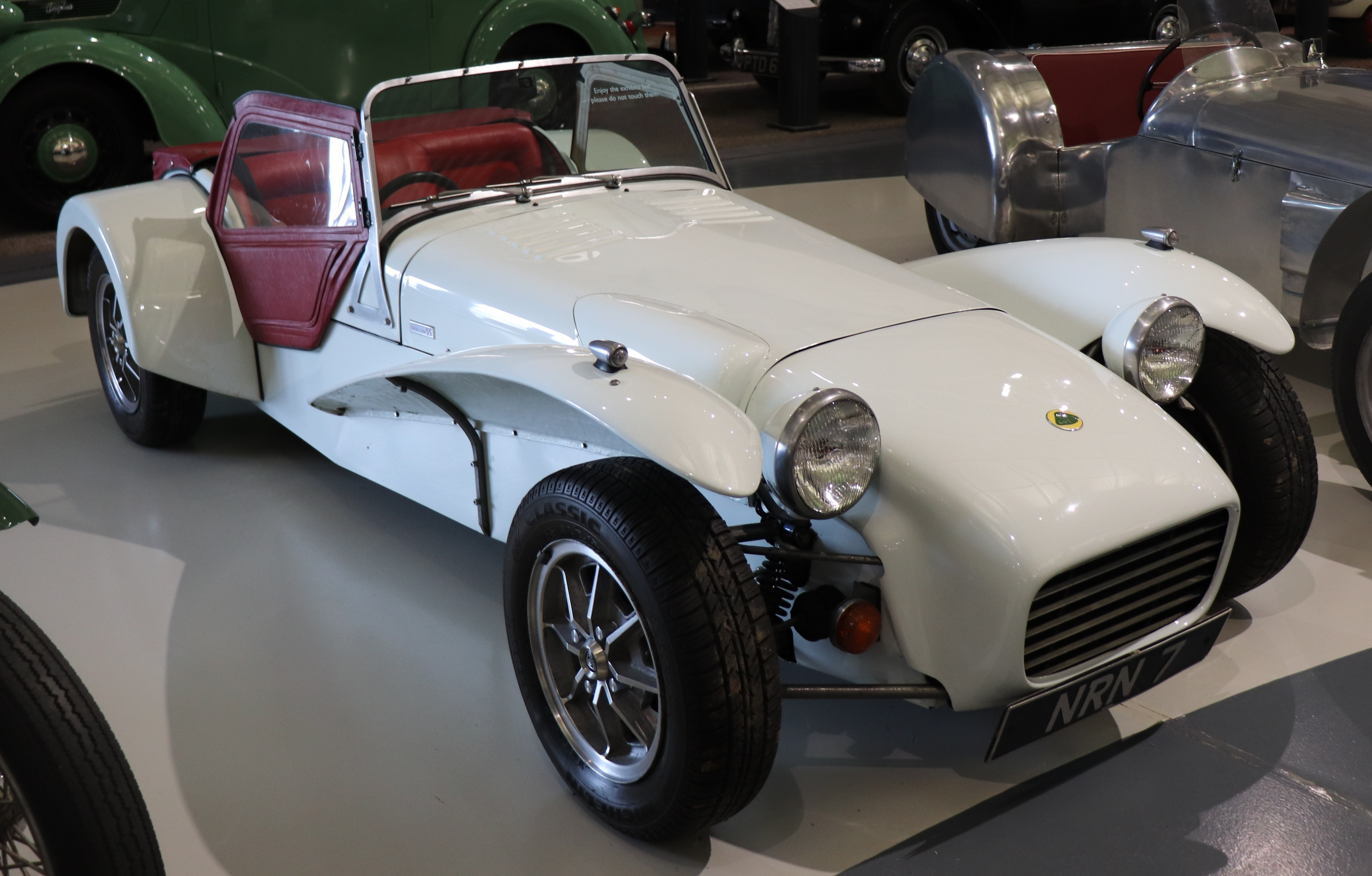 1969 Lotus Seven S3 1.6 Front Taken at the British Motor Museum, Gaydon